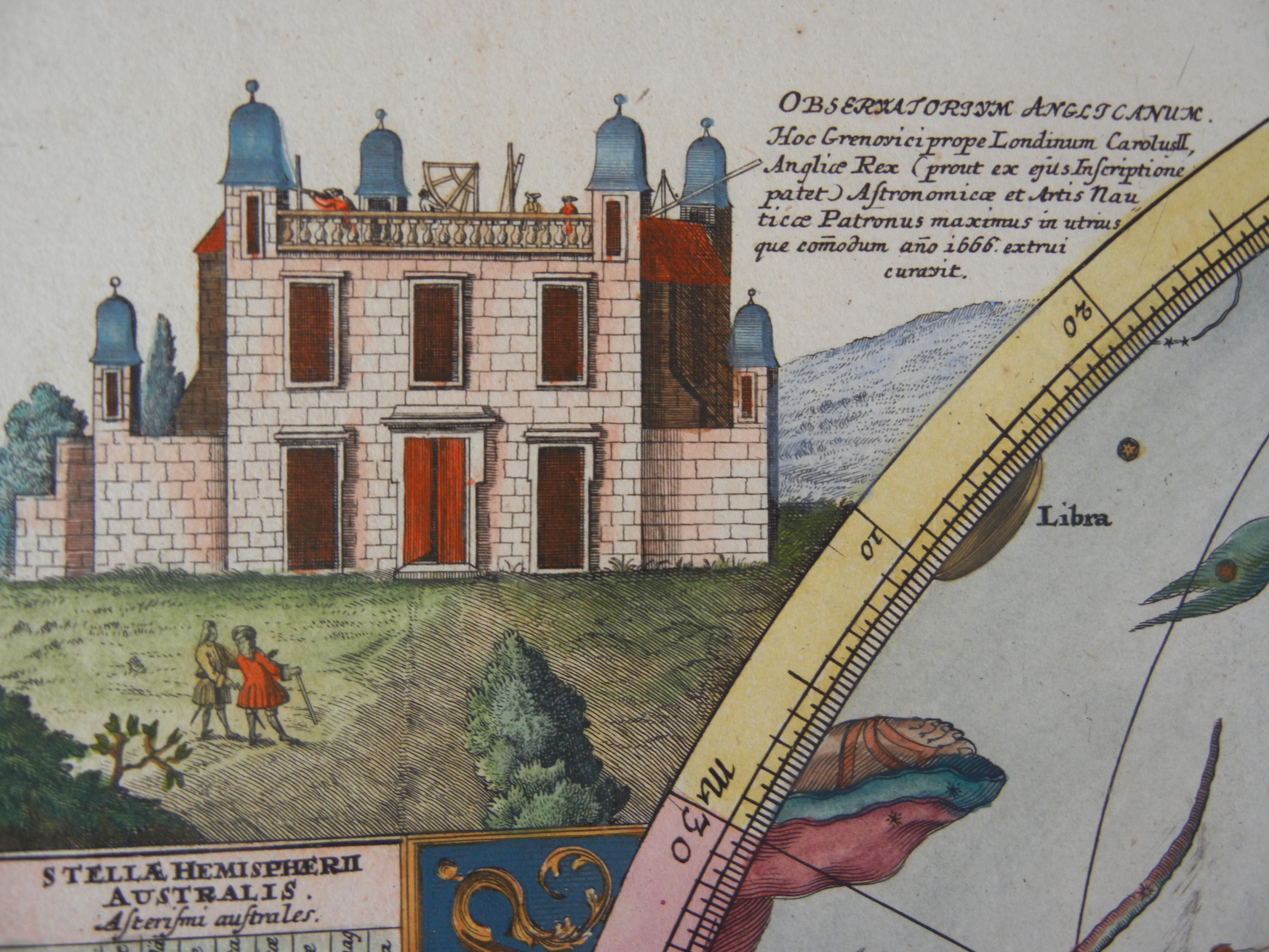 Vignette of Greenwich Observatory within Doppelmayr's southern celestial hemisphere map, "Hemisphaerium Coeli Australe in quo Fixarum loca secundum Eclipticae ductum ad anum 1730 . . ."